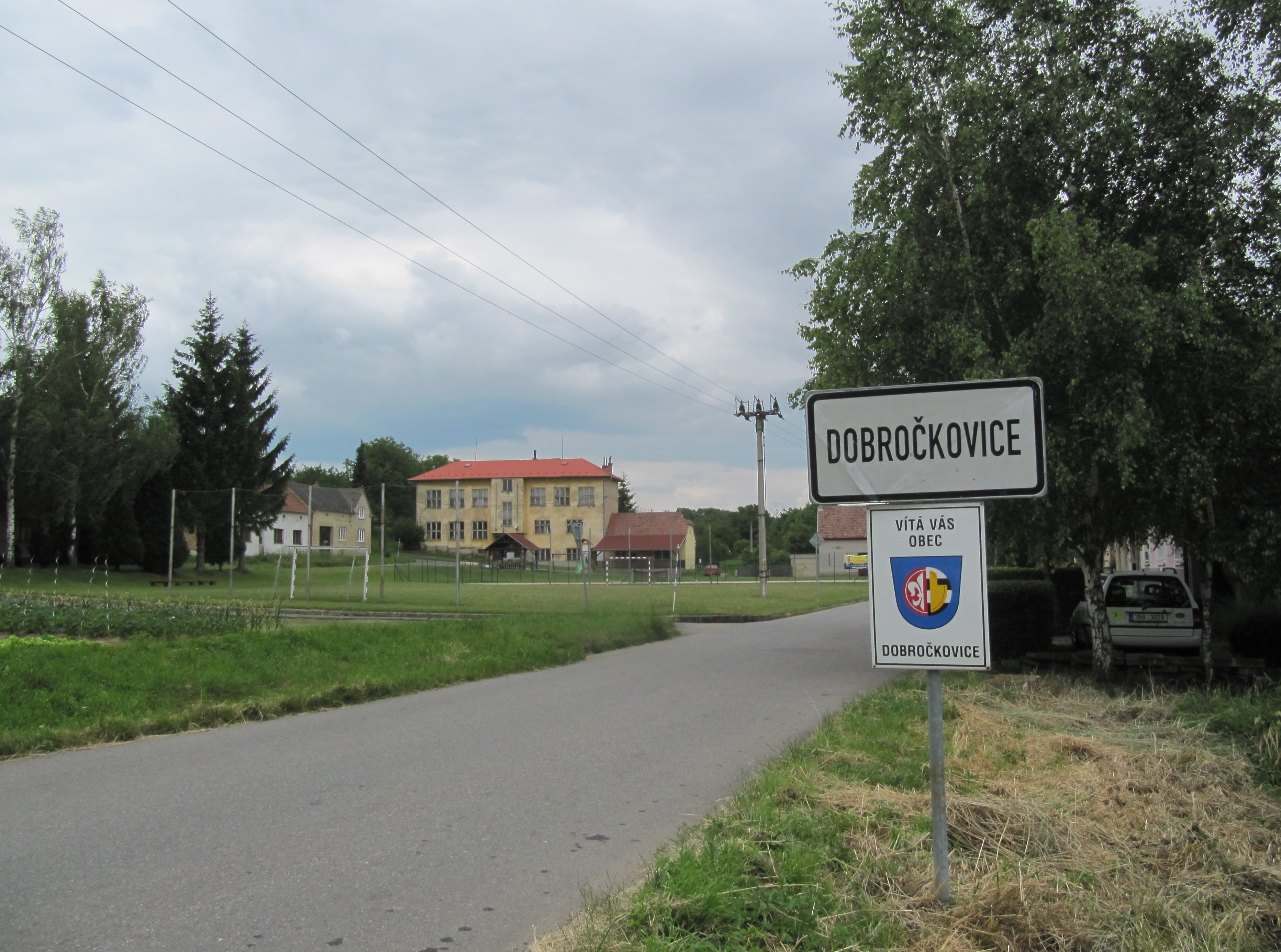 Dobročkovice, Vyškov District, Czech Republic.